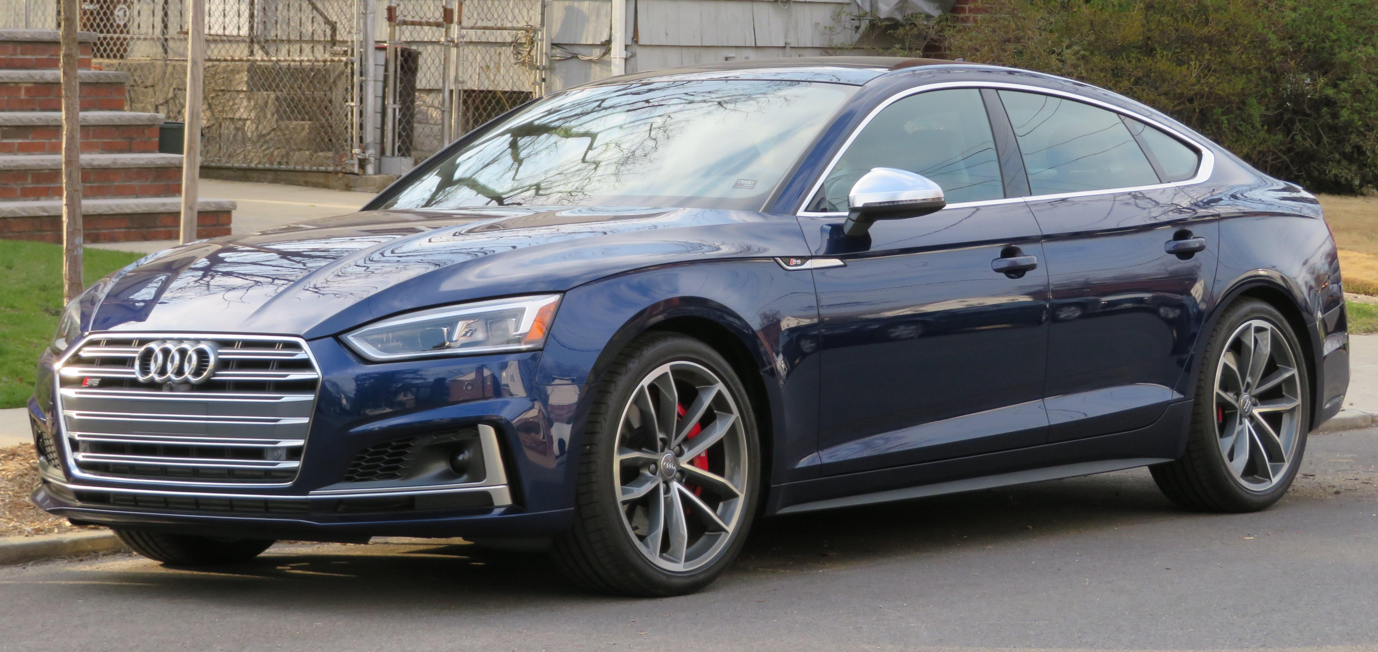 In Queens, New York